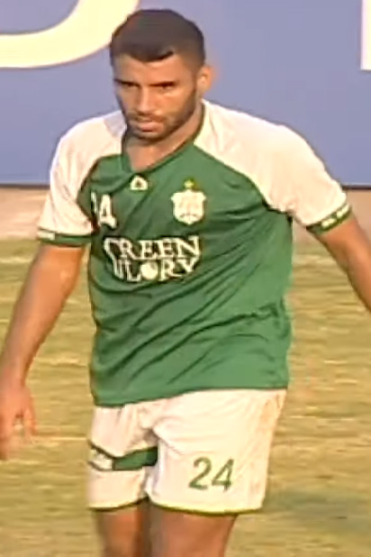 Houssem Louati with Ansar against Shabab Sahel during the 2019-20 Lebanese Premier League